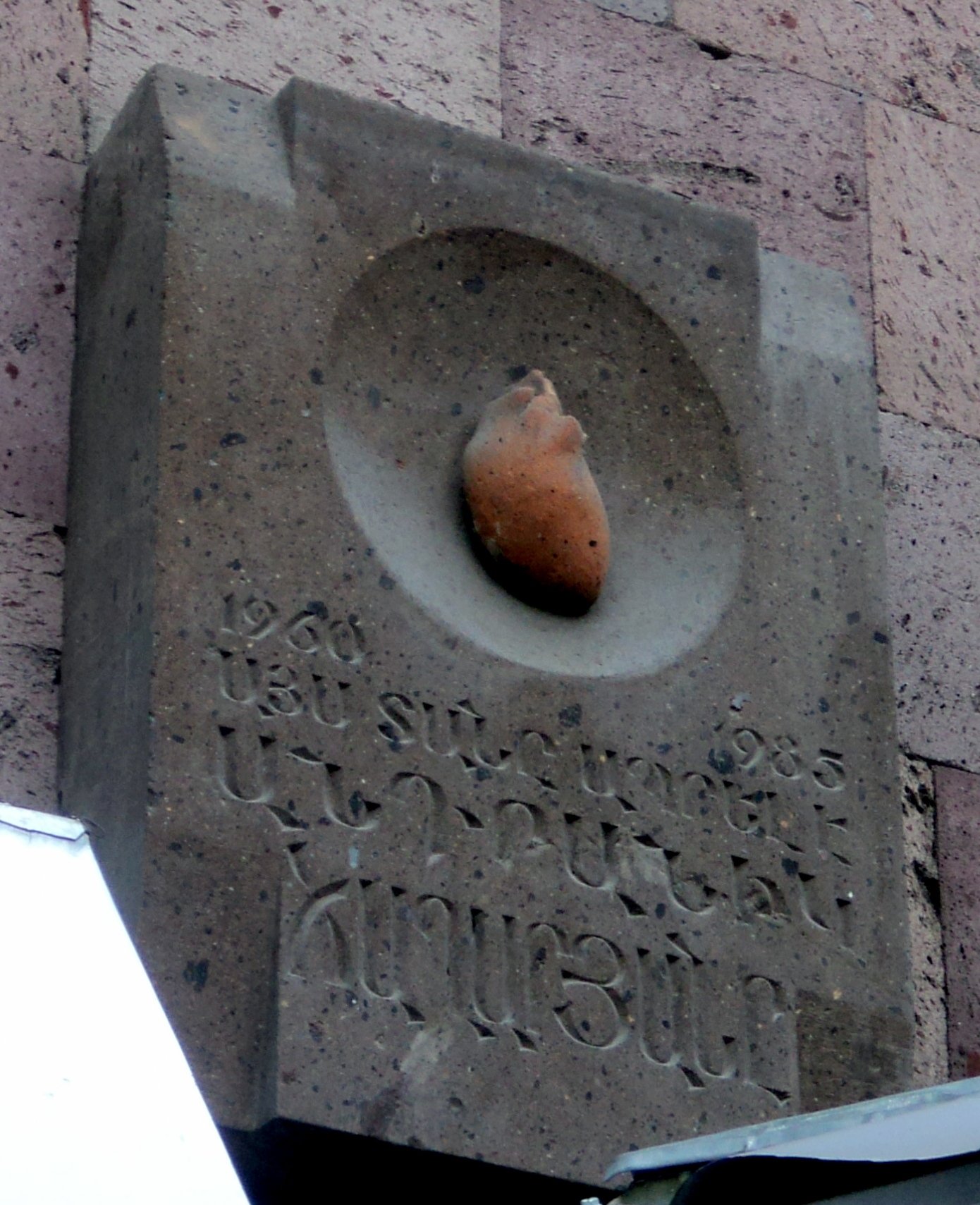 Andranik Chagharyan's plaque